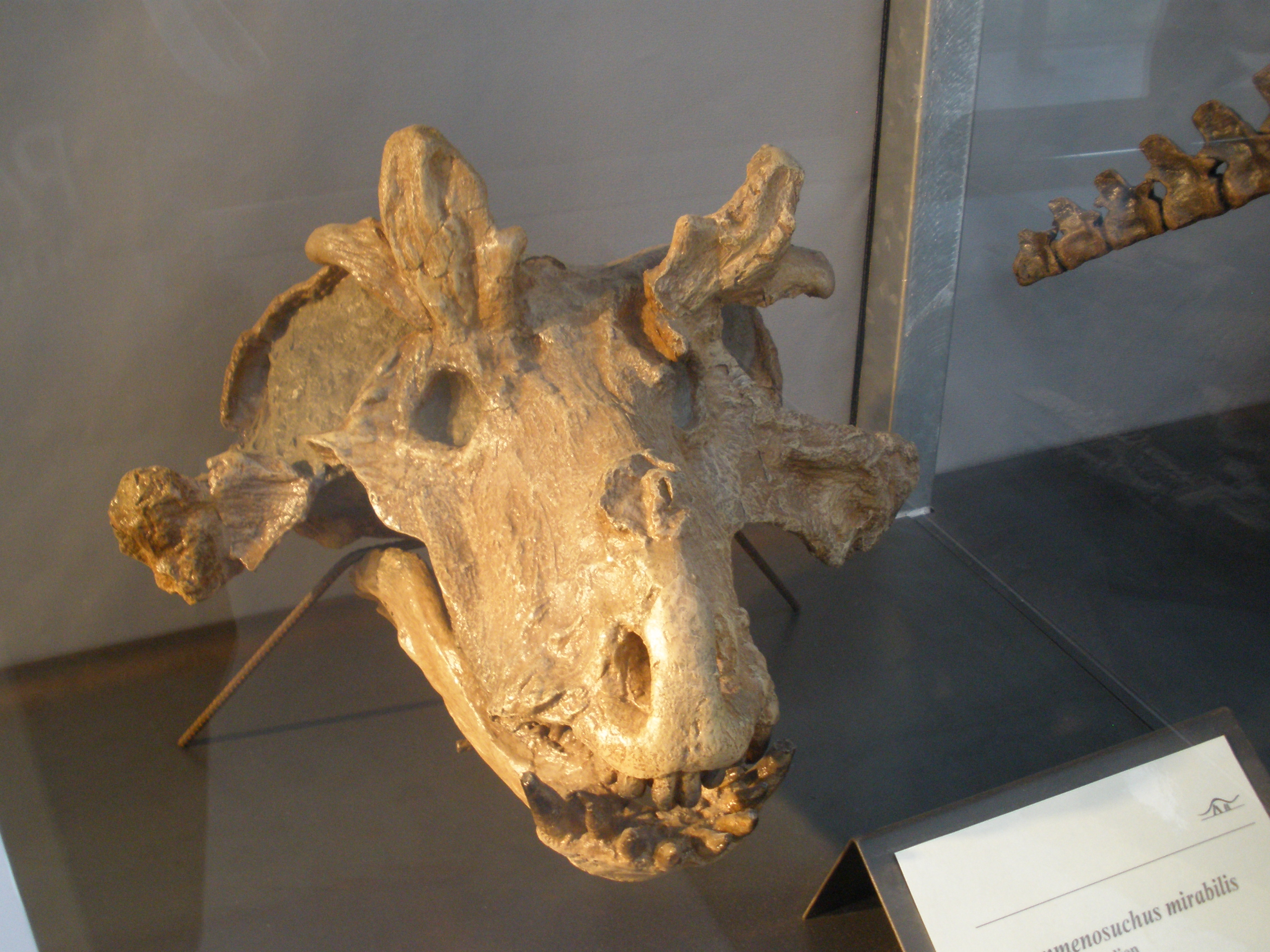 fossil of Estemmenosuchus mirabilis, an extinct dinocephalian